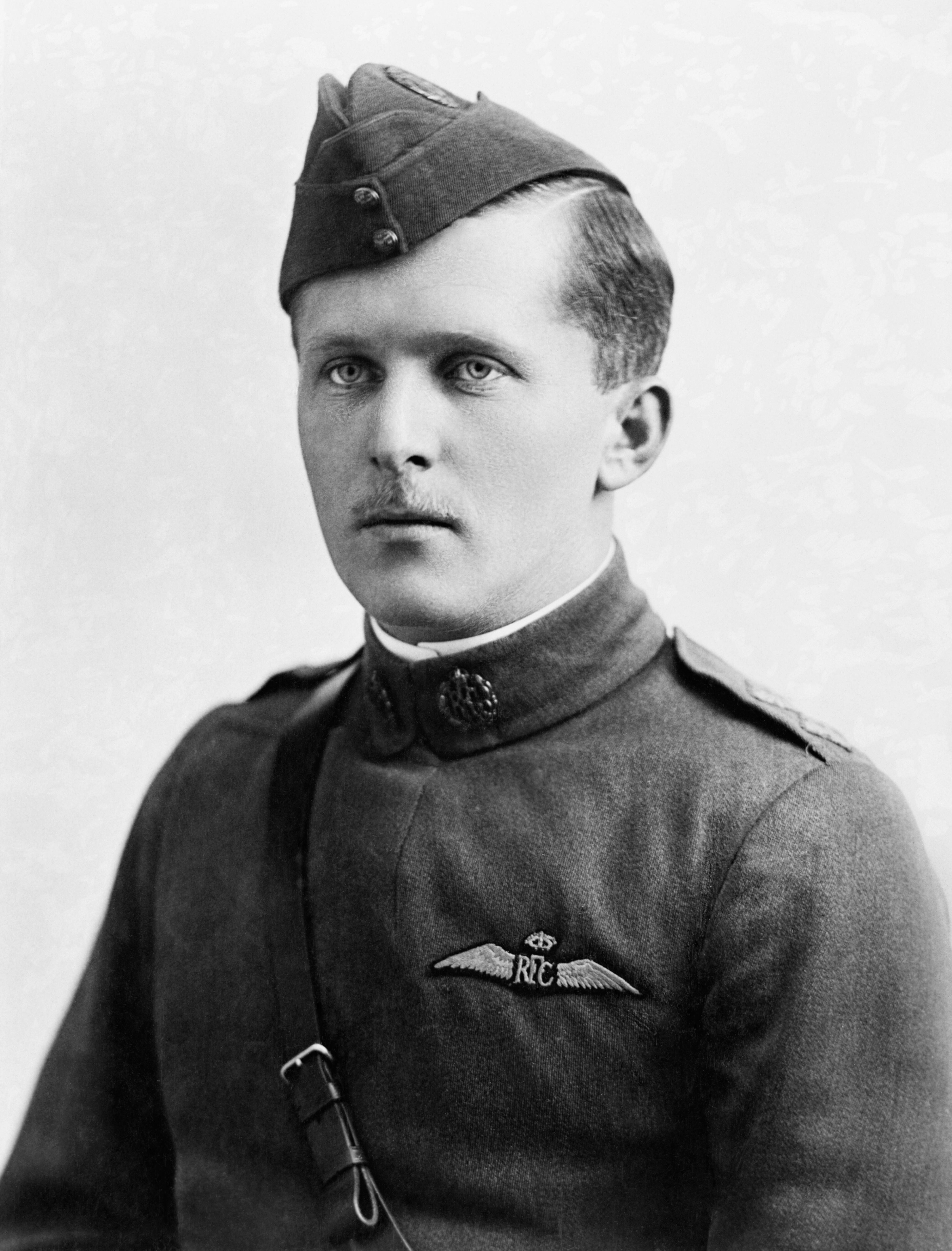 Lieutenant William 'Billy' Bishop VC in the uniform of the Royal Flying Corps